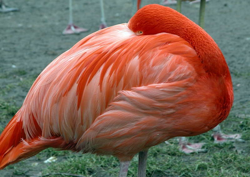 Flamingo, Zoo, Frankfurt, Germany